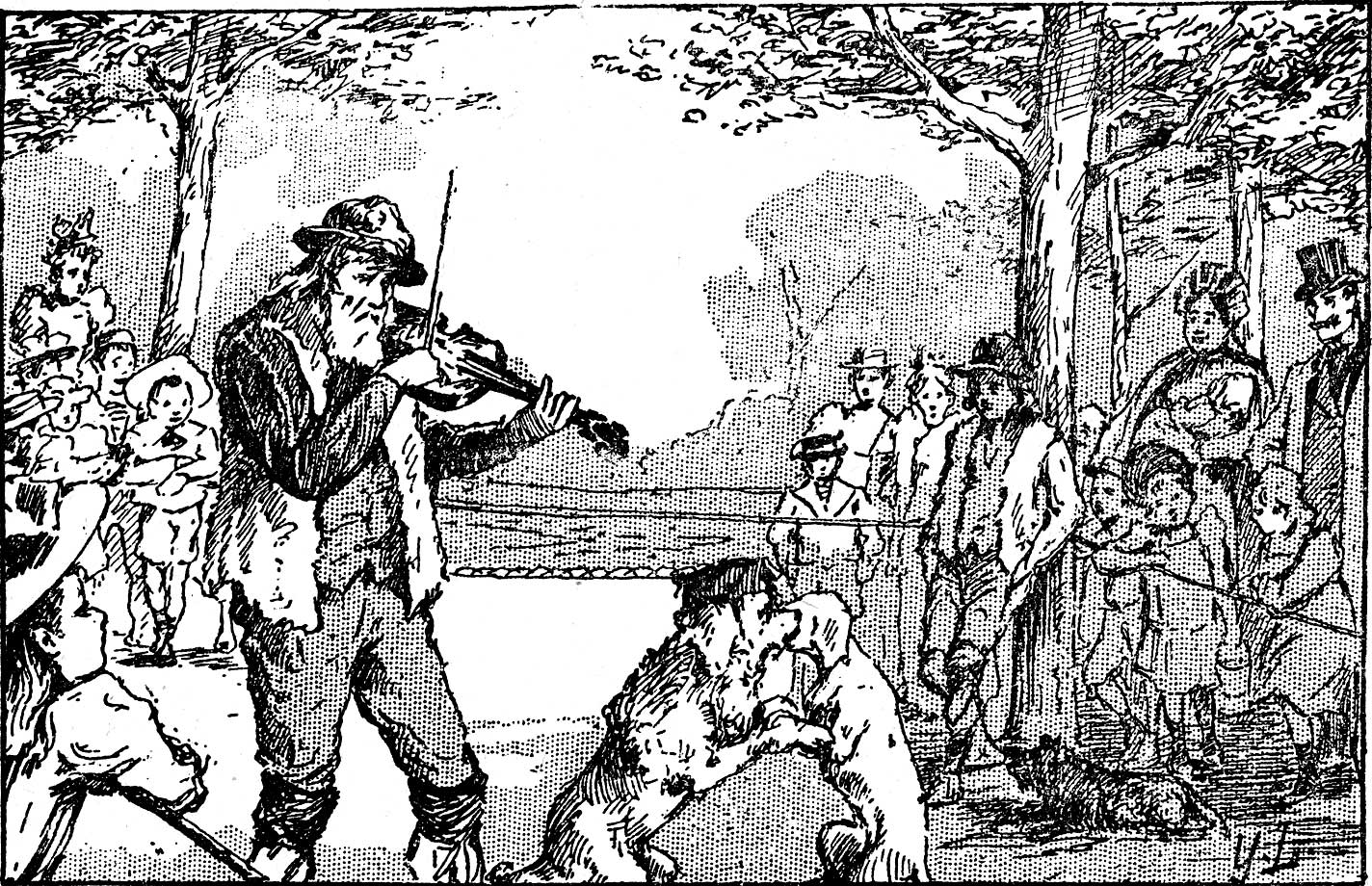 Title page from Nobody's Boy (1878) by Hector Malot (1830-1907)